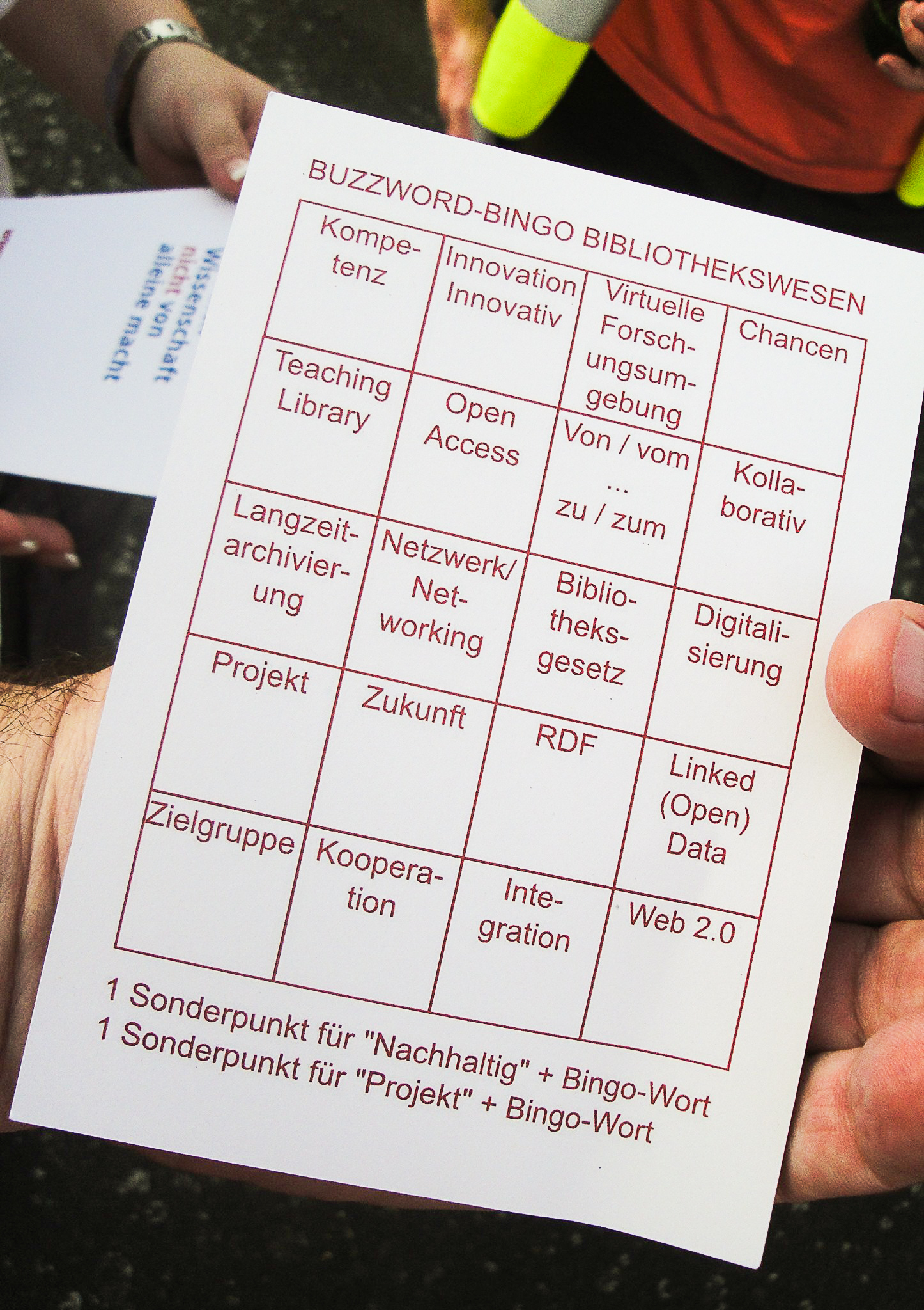 Library Buzzword Bingo